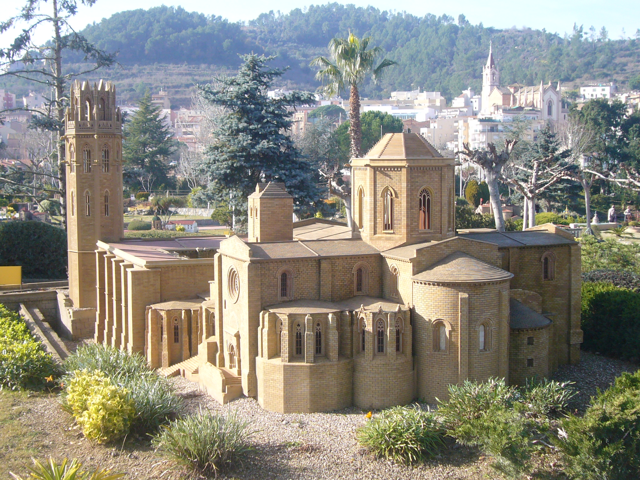 Scale models at the "Catalunya en Miniatura" miniature park: Seu Vella de Lleida (Cathedral of Lleida).